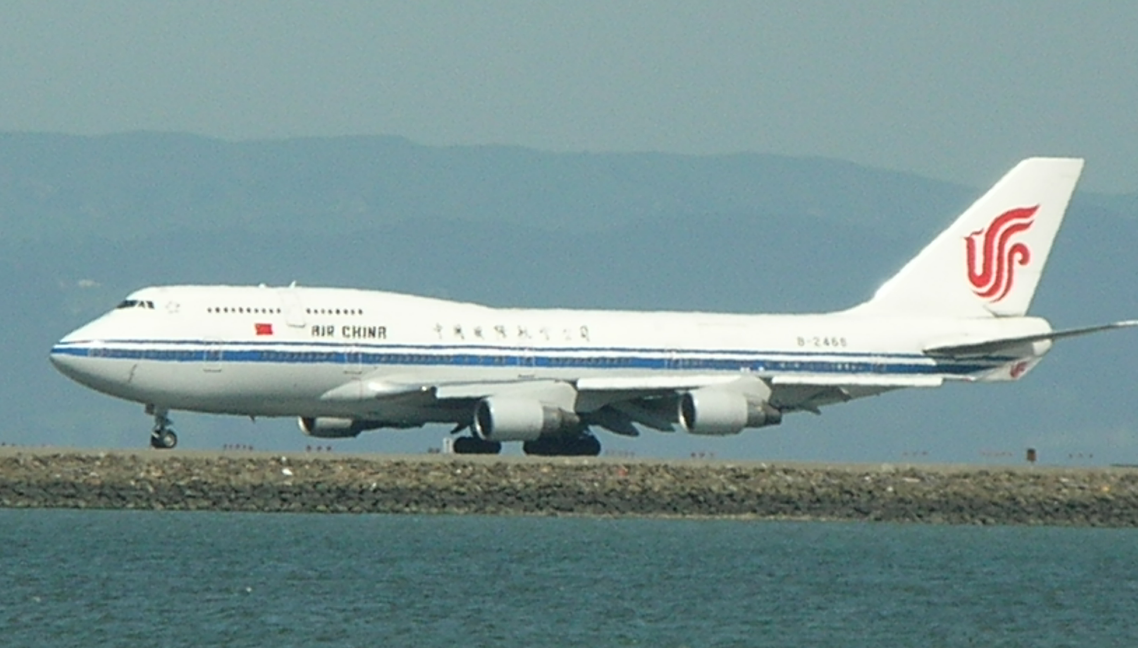 An Air China Boeing 747-400M taking off at San Francisco International Airport (SFO).